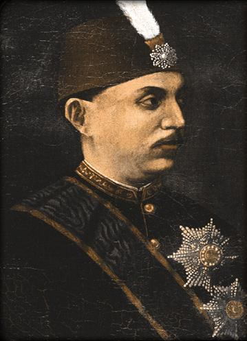 Murat V